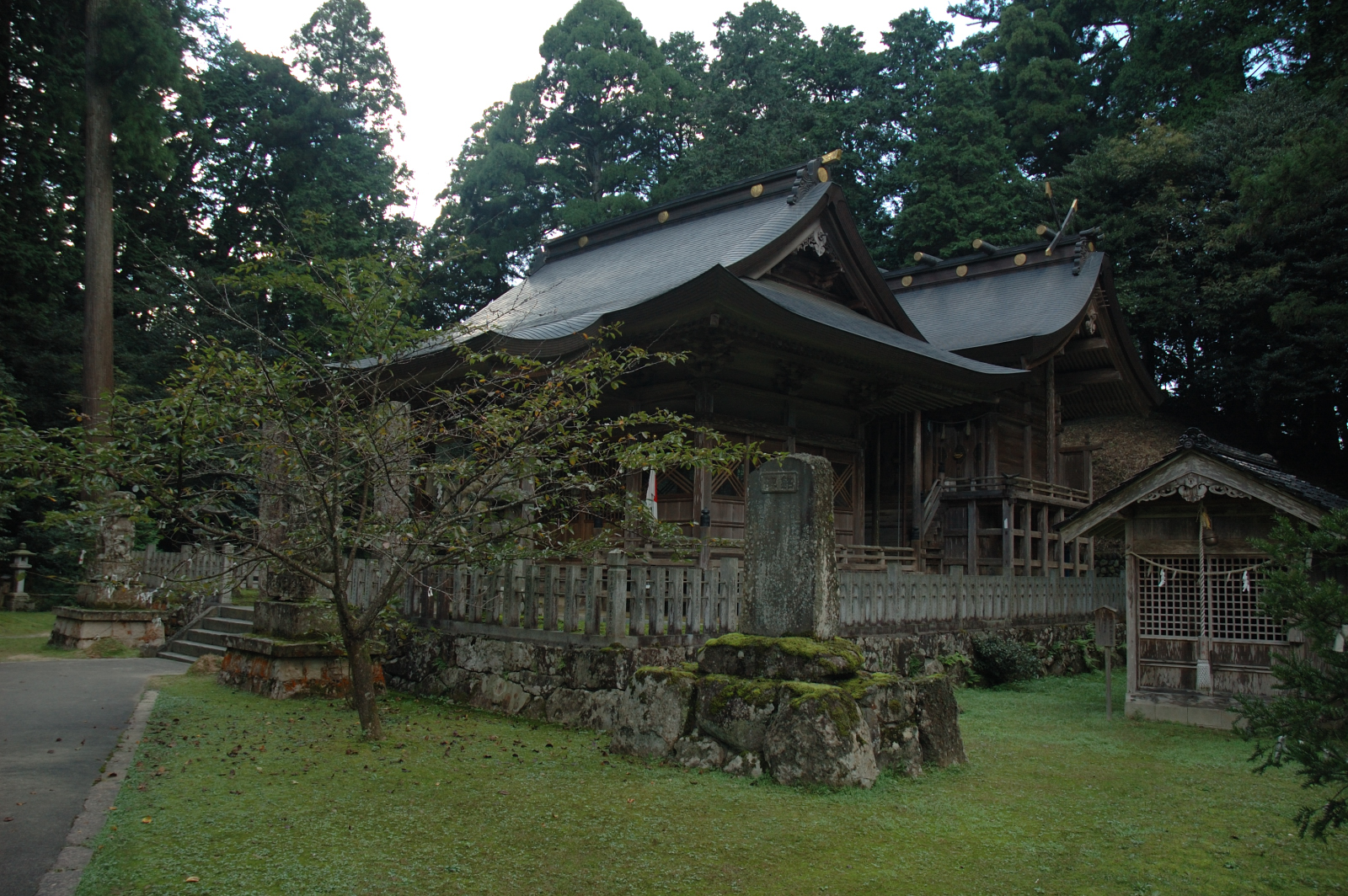 front and main shrine